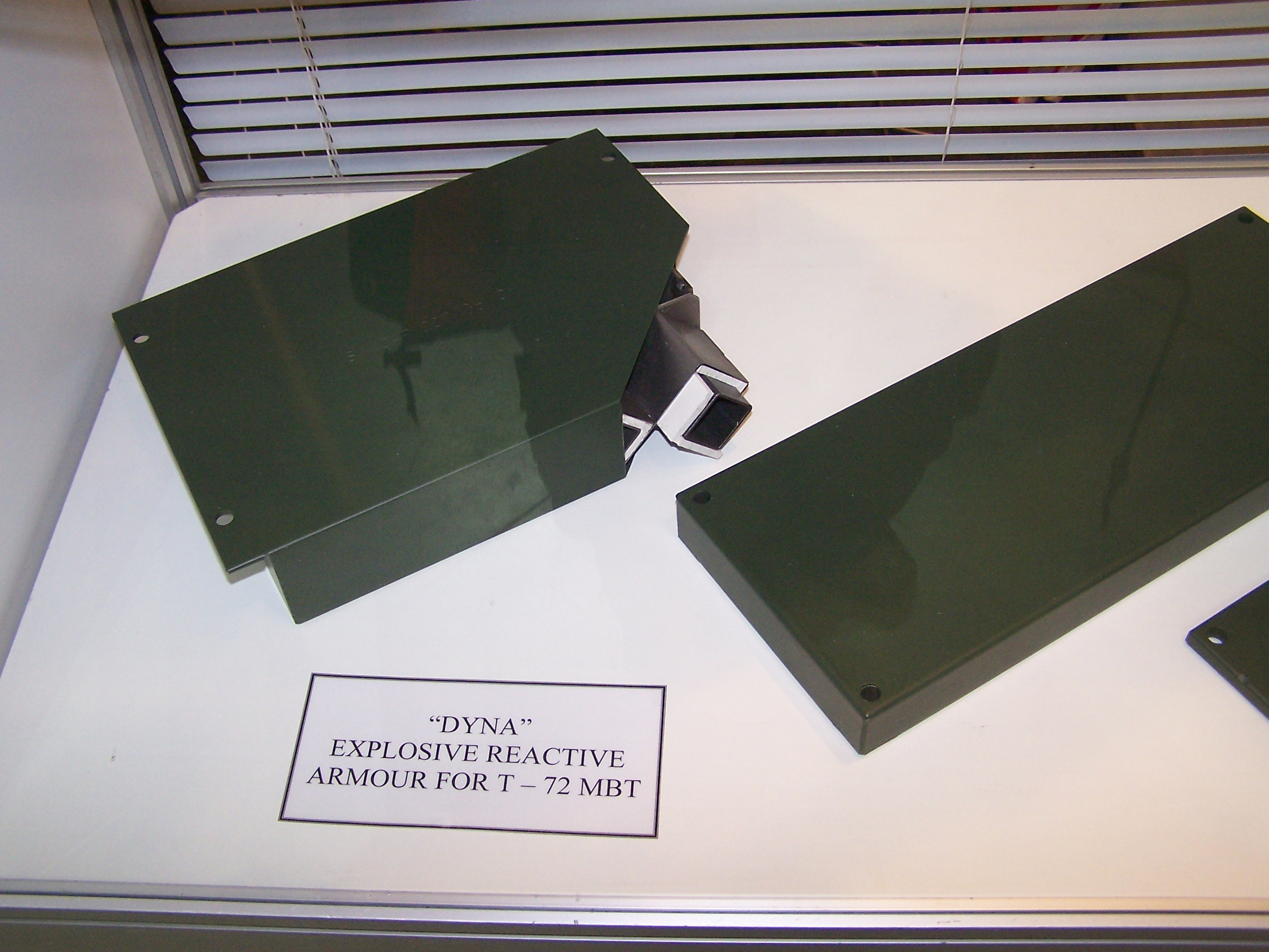 "DYNA" explosive reactive armor for T-72 MBT